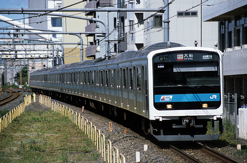 (Original description: 209系 さいたま新都心〜大宮 2006年10月8日 投稿者撮影) en:209 series train on the Keihin-Tōhoku Line between Saitama-Shintoshin Station and Ōmiya Station (Saitama)